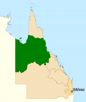 This image incorporates data that is: © Commonwealth of Australia (Australian Electoral Commission) 2009 Division of Kennedy 2010